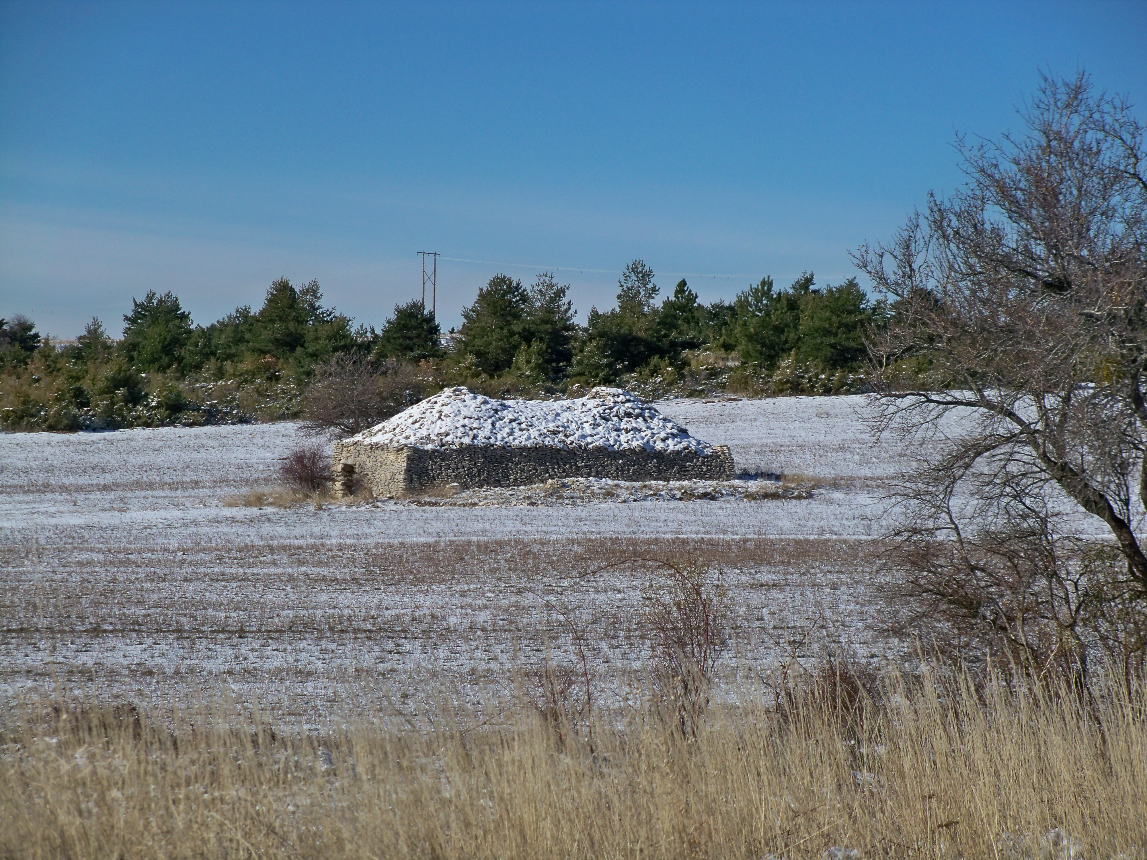 Clapas on the Plateau d'Albion, France.